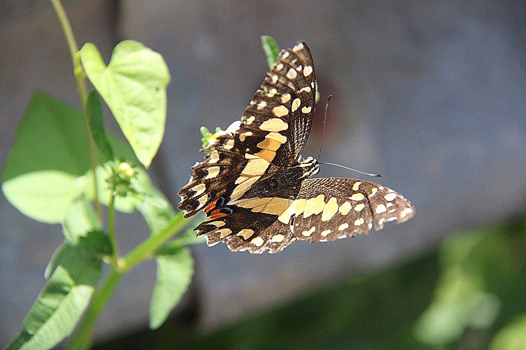 Large butterfly in Vietnam